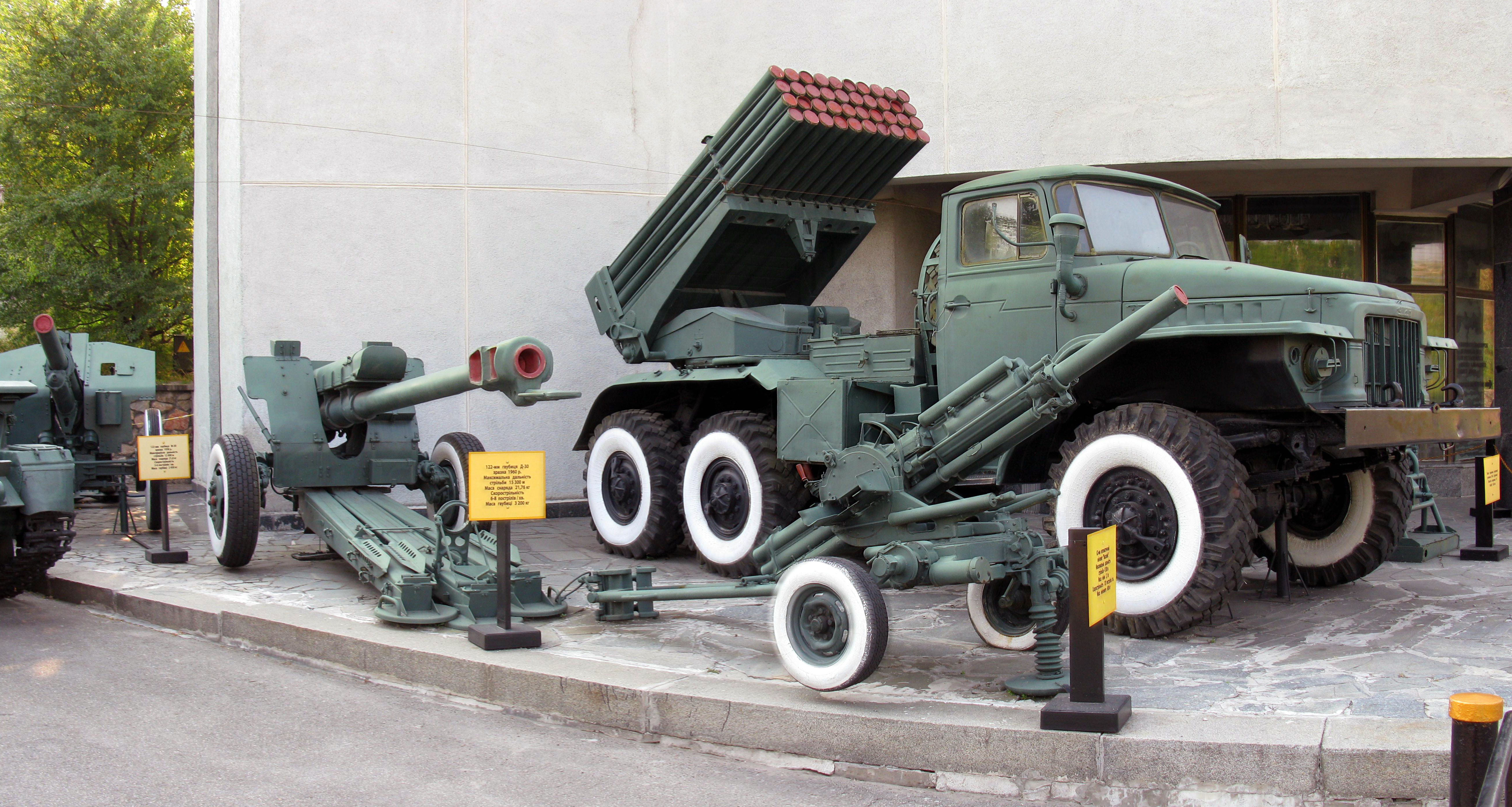 From the left 122 mm howitzer M1938 (M-30), 122 mm howitzer 2A18 (D-30), 2B9 Vasilek, BM-21 Grad at the National Museum of the Great Patriotic War in Kiev, Ukraine.